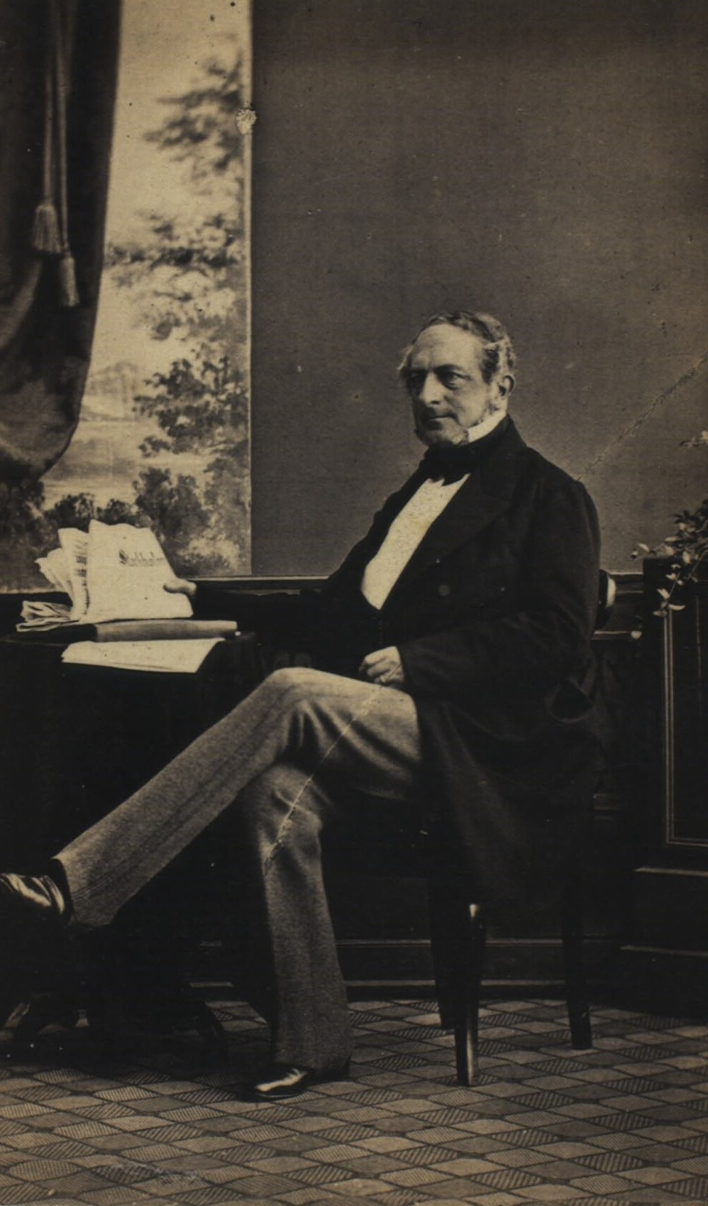 Danish diplomat, foreign minister, landowner, count Wulff Heinrich Bernhard Scheel-Plessen (alternatively: Scheel von Plessen) (1809-1876)